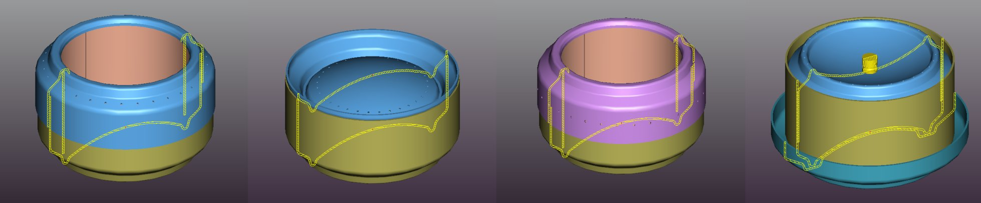 Pepsi can stove variations source:me Duk 23:07, 31 Oct 2004 (UTC)